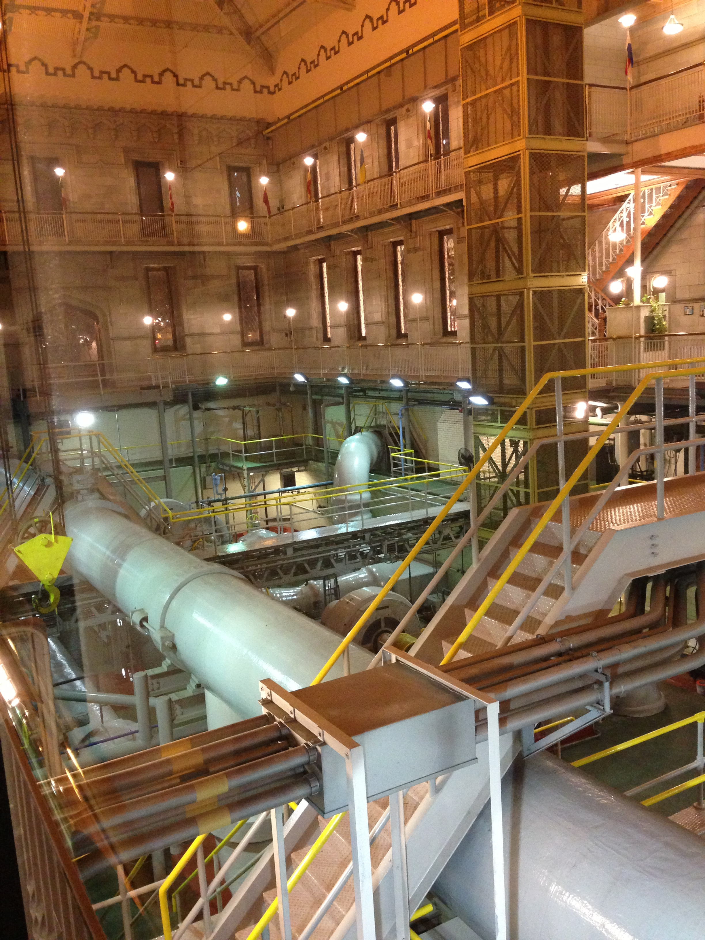 Chicago Avenue Pumping Station4